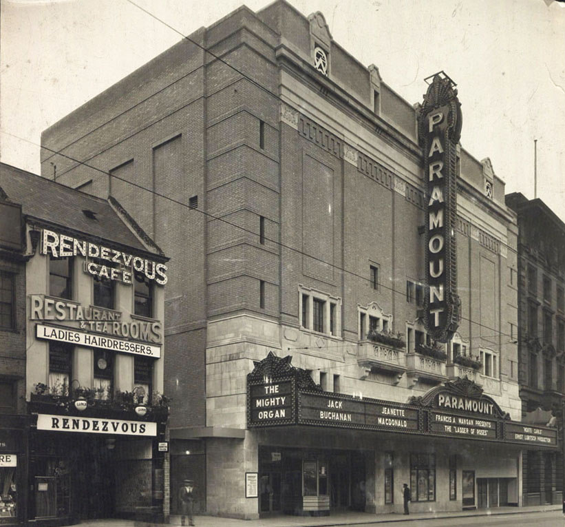 View of the exterior of the Paramount Theatre, Pilgrim Street, Newcastle upon Tyne, September 1931 (TWAM ref. DX1677/1/1). The Odeon Cinema opened on Pilgrim Street, Newcastle upon Tyne on 7 September 1931. It as originally known as the Paramount Theatre but was taken over by Odeon in 1939. The Odeon’s luxurious décor made it one of the country’s finest cinemas and arguably the North East’s best loved. Most of the images in this album date from its opening and convey a real sense of the building’s elegance and beauty. Sadly the cinema closed in 2002 and was demolished in 2017. This image is from an album which was kindly donated to the Archives by the Northumberland & Newcastle Society. (Copyright) We're happy for you to share this digital image within the spirit of The Commons. Please cite 'Tyne & Wear Archives & Museums' when reusing. Certain restrictions on high quality reproductions and commercial use of the original physical version apply though; if you're unsure please .